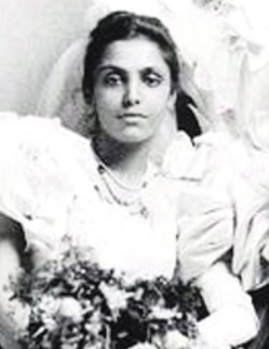 Princess Bamba Duleep Singh at her debut, Buckingham Palace, 1894